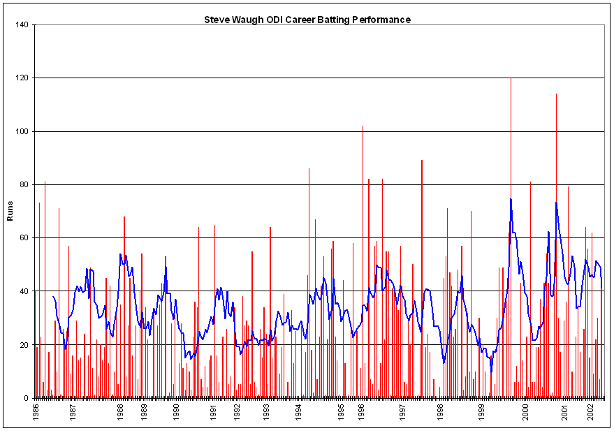 ODI batting chart for Steve Waugh. Blue line is an average for ten most recent innings, blue dots are not outs. Bars are runs scored